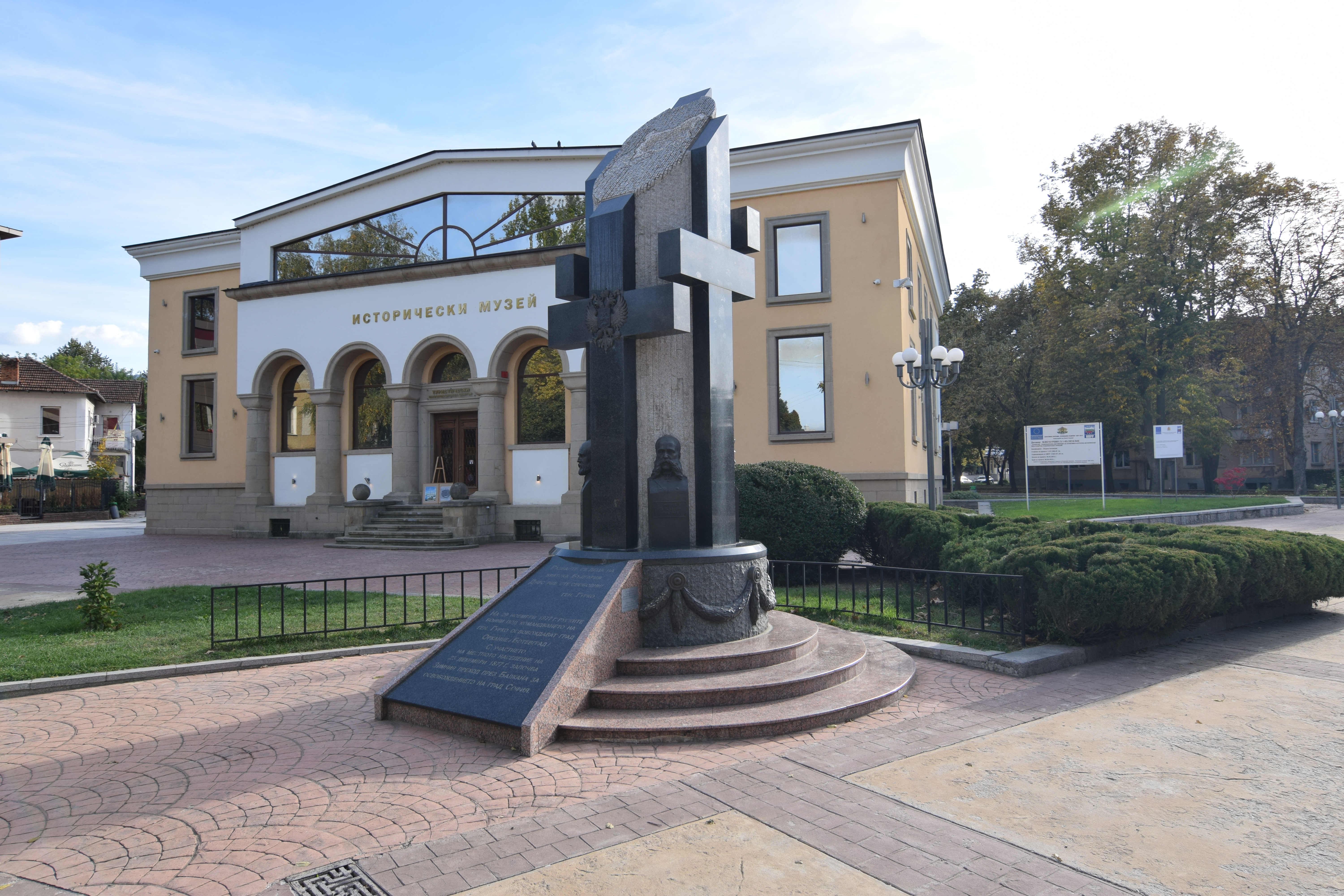 Botevgrad History Museum, Bulgaria